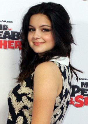 Ariel Winter in Mr Peabody & Sherman Premiere in Sydney, Australia 2014.